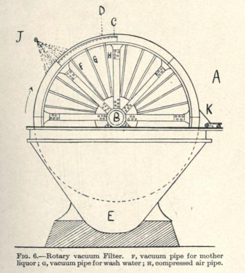 Rotary vacuum filter